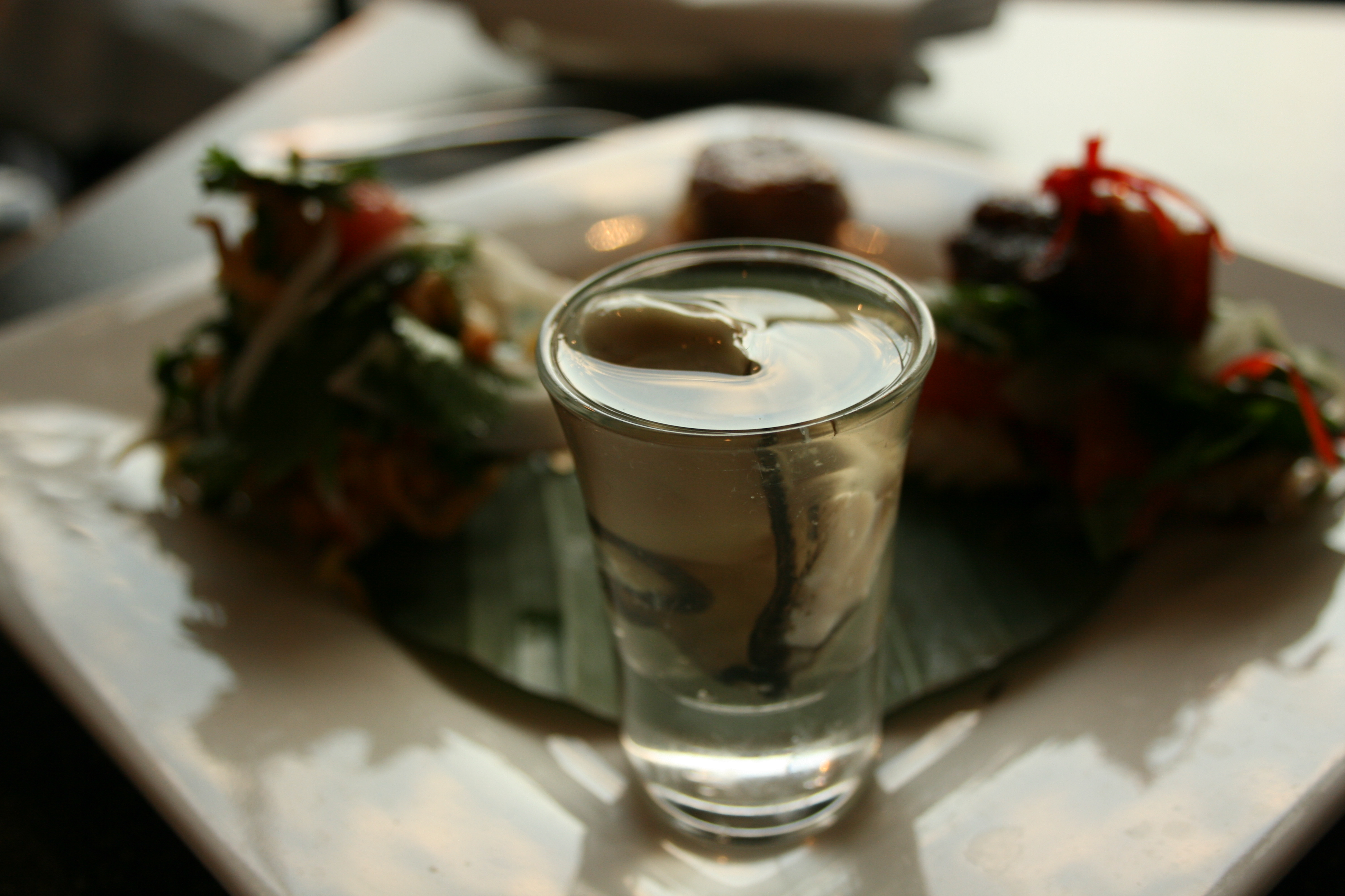 Sake oyster shooter. Very nice and sweet. 26 Bell Street Torquay Vic 3228 T: 03 5261 6477